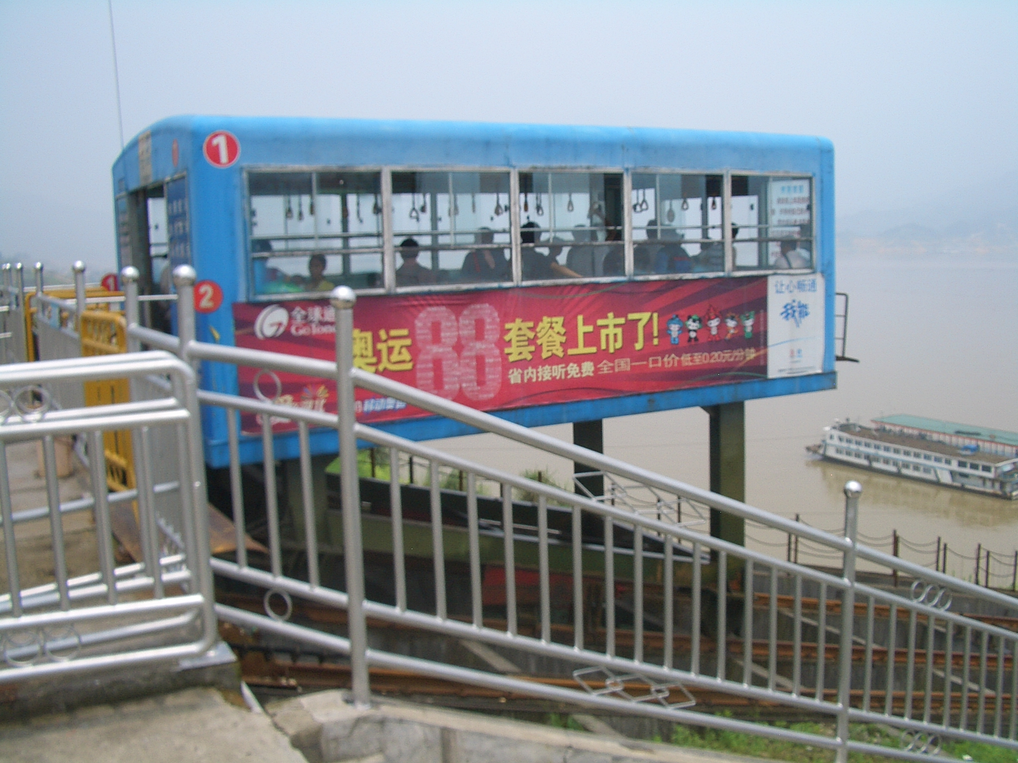 Funicular gets you to your boat at Maoping Town dock (Zigui County, Hubei) for Y2